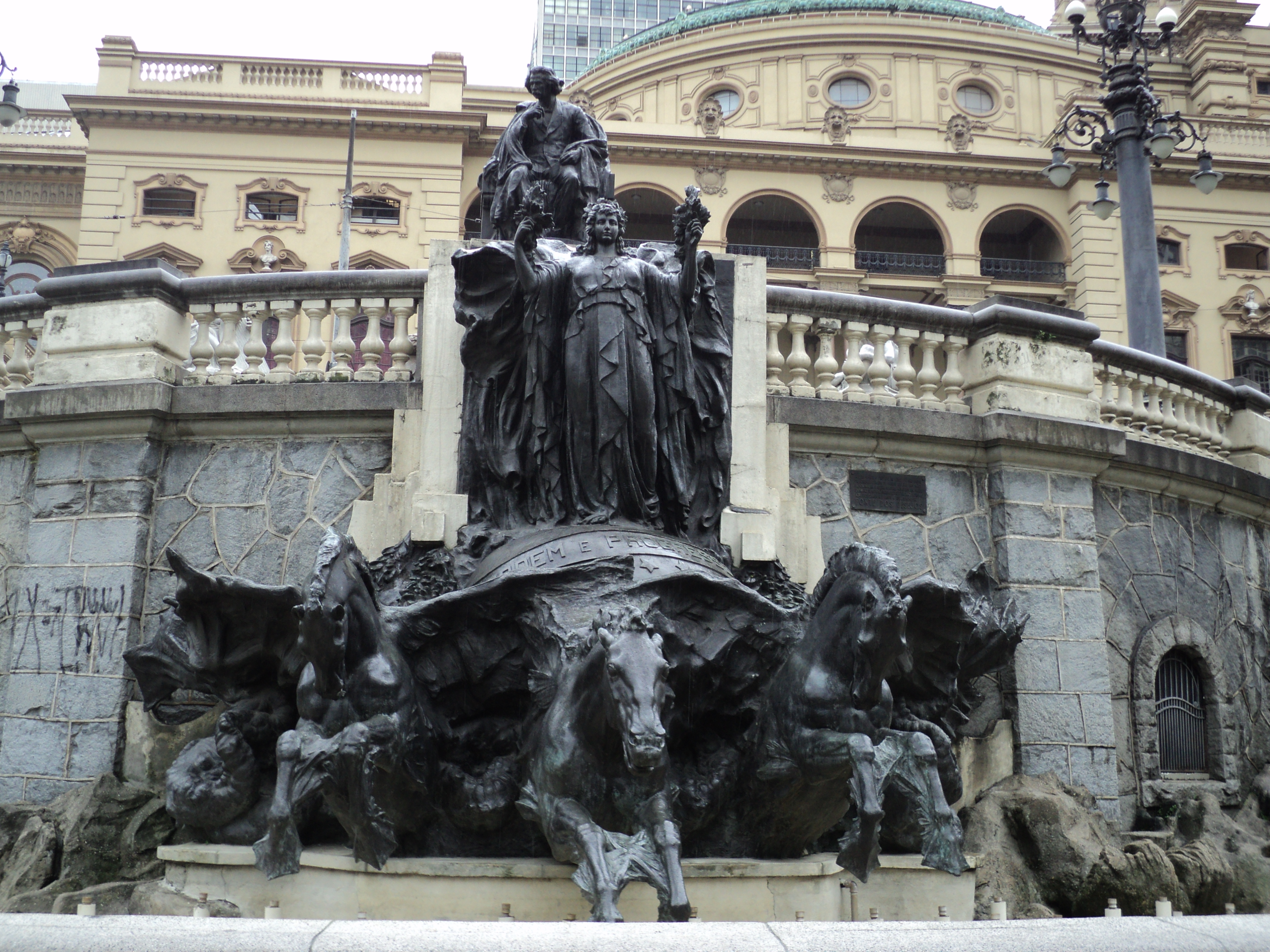 Ramos de Azevedo square, in São Paulo city.